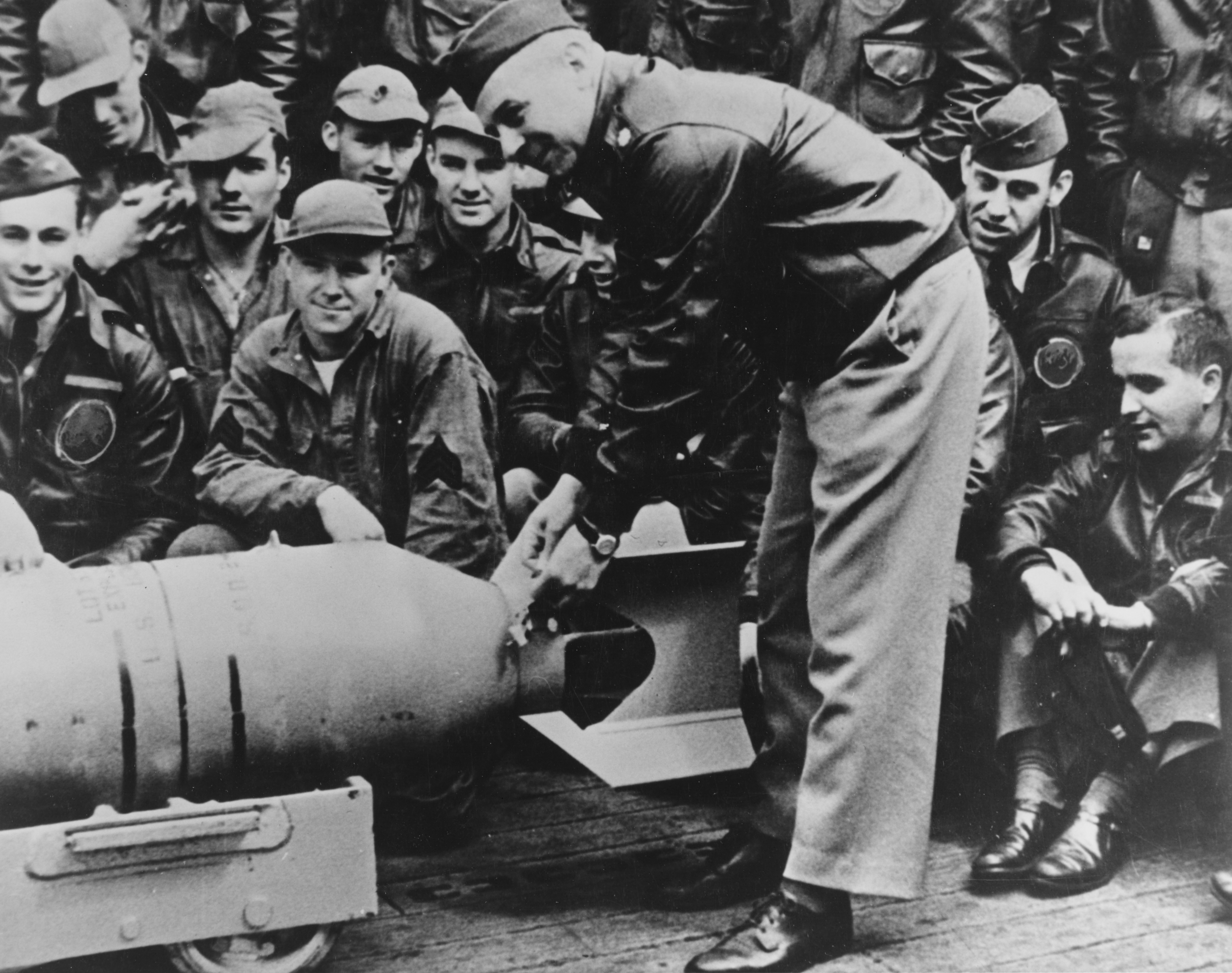 LtCol James H. Doolittle, USAAF Doolittle Raid on Japan, April 1942 Lieutenant Colonel James H. Doolittle, USAAF (front), leader of the raiding force, wires a Japanese medal to a 500-pound bomb, during ceremonies on the flight deck of USS Hornet (CV-8), shortly before his force of sixteen B-25B bombers took off for Japan. The planes were launched on 18 April 1942. The wartime censor has obscured unit patches of the Air Force flight crew members in the background.